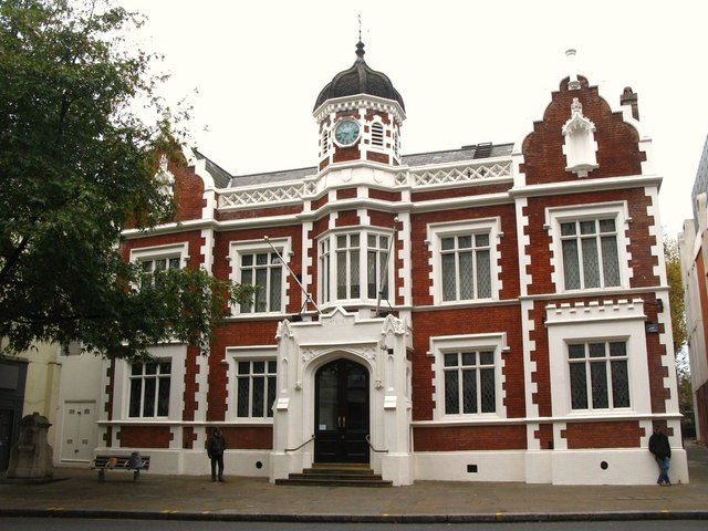 Bank Melli Iran, Kensington High Street, W8